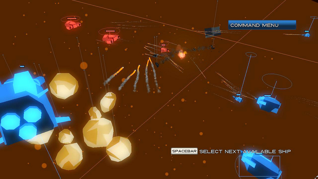 Screenshot of video game flotilla (2010) by Blendo Games